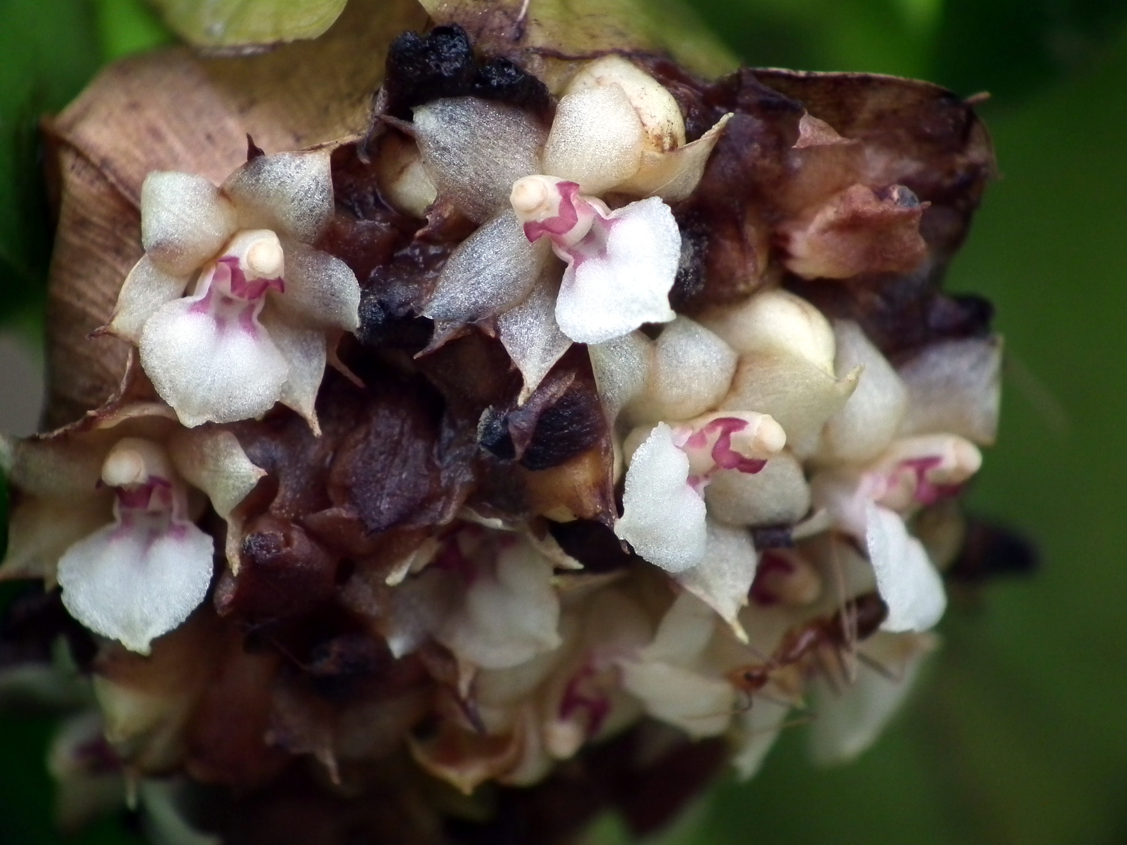 by Ronny Boos